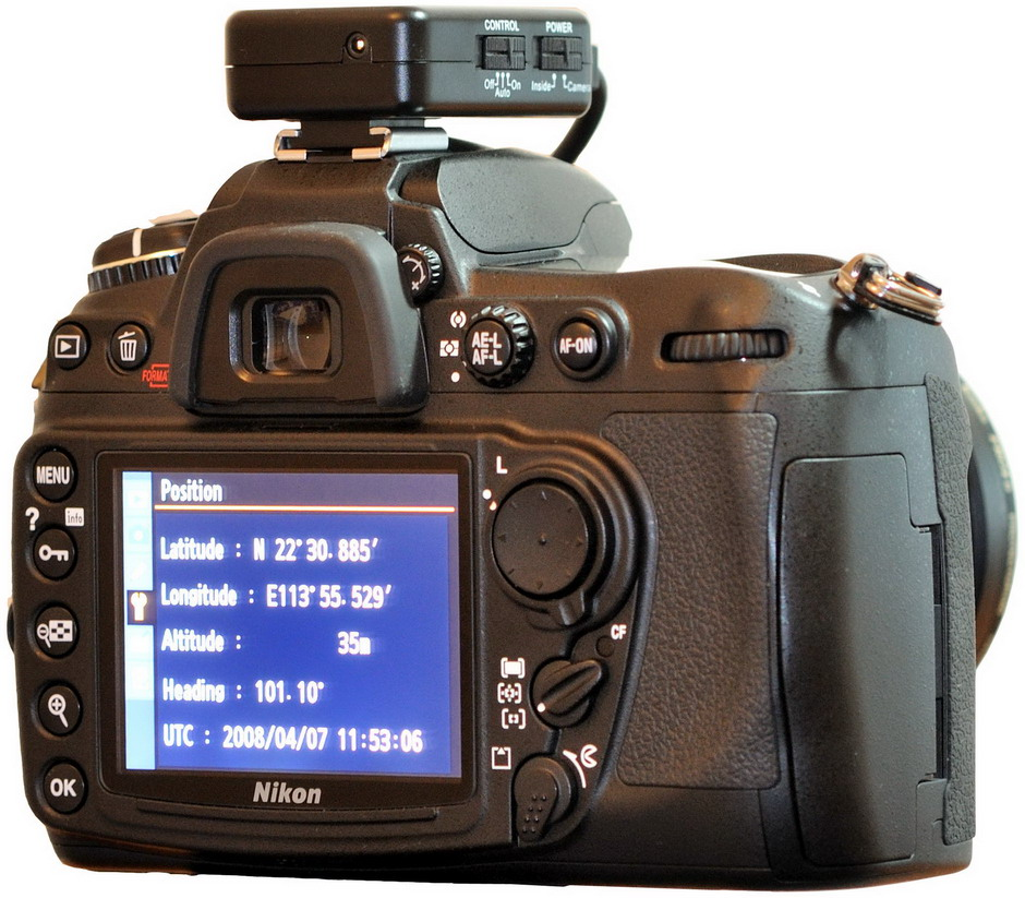 DP-GPS N2 is an all-in-one, cost-effective GPS solution which is specially designed for a DSLR (Digital Single-Lens Reflex) camera. Based on the SiRF star III chipset, it offers accurate real time position (latitude, longitude, elevation, and heading) and the precise time (UTM time) information to your DSLR camera.